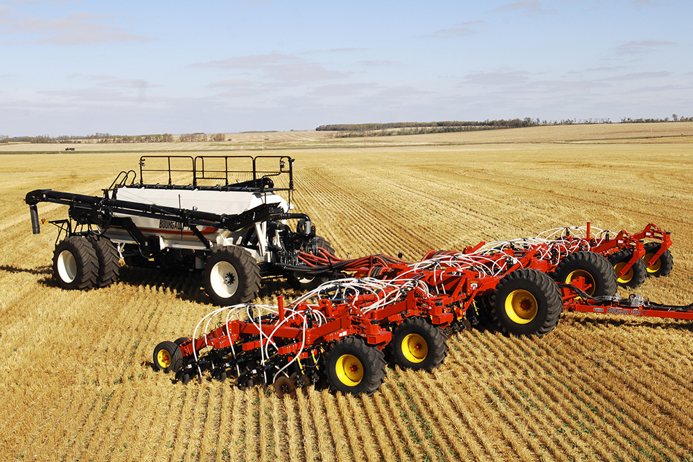 Bourgault 7950 Air Seeder with a Bourgault 3320 QDA Paralink Hoe Drill